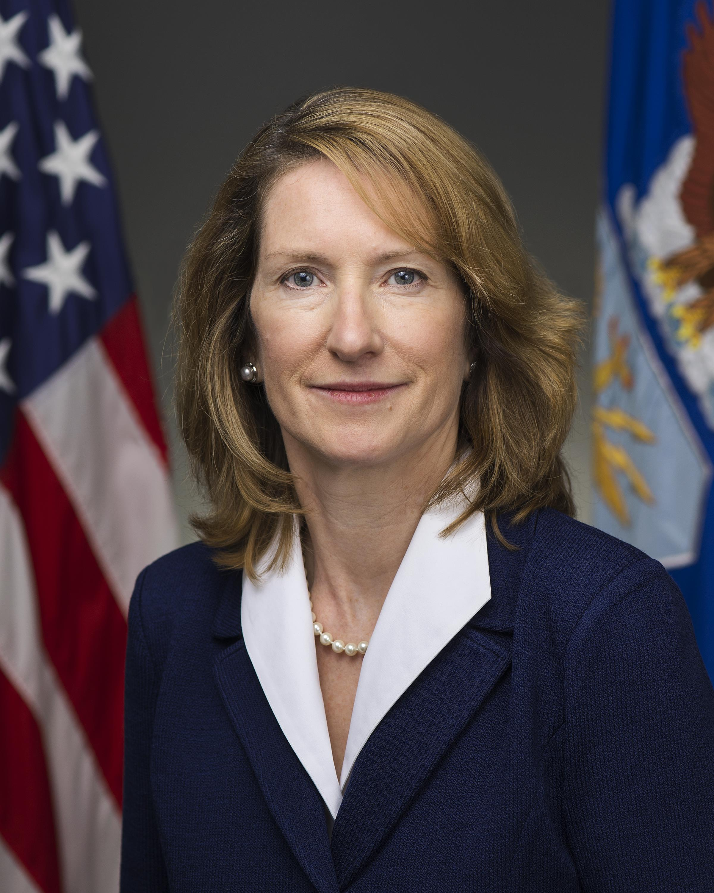 The official portrait of Lisa S. Disbrow, 25th United States Under Secretary of the Air Force.